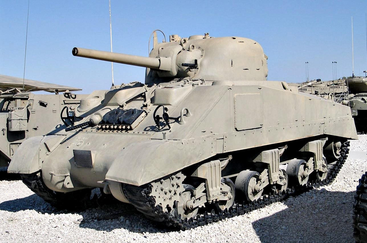 Description: M4 Sherman medium tank in Yad la-Shiryon Museum, Israel. The tank seems to combine a hull of early production M4A4 and an engine of M4A2. Source: Photo by me, User:Bukvoed.